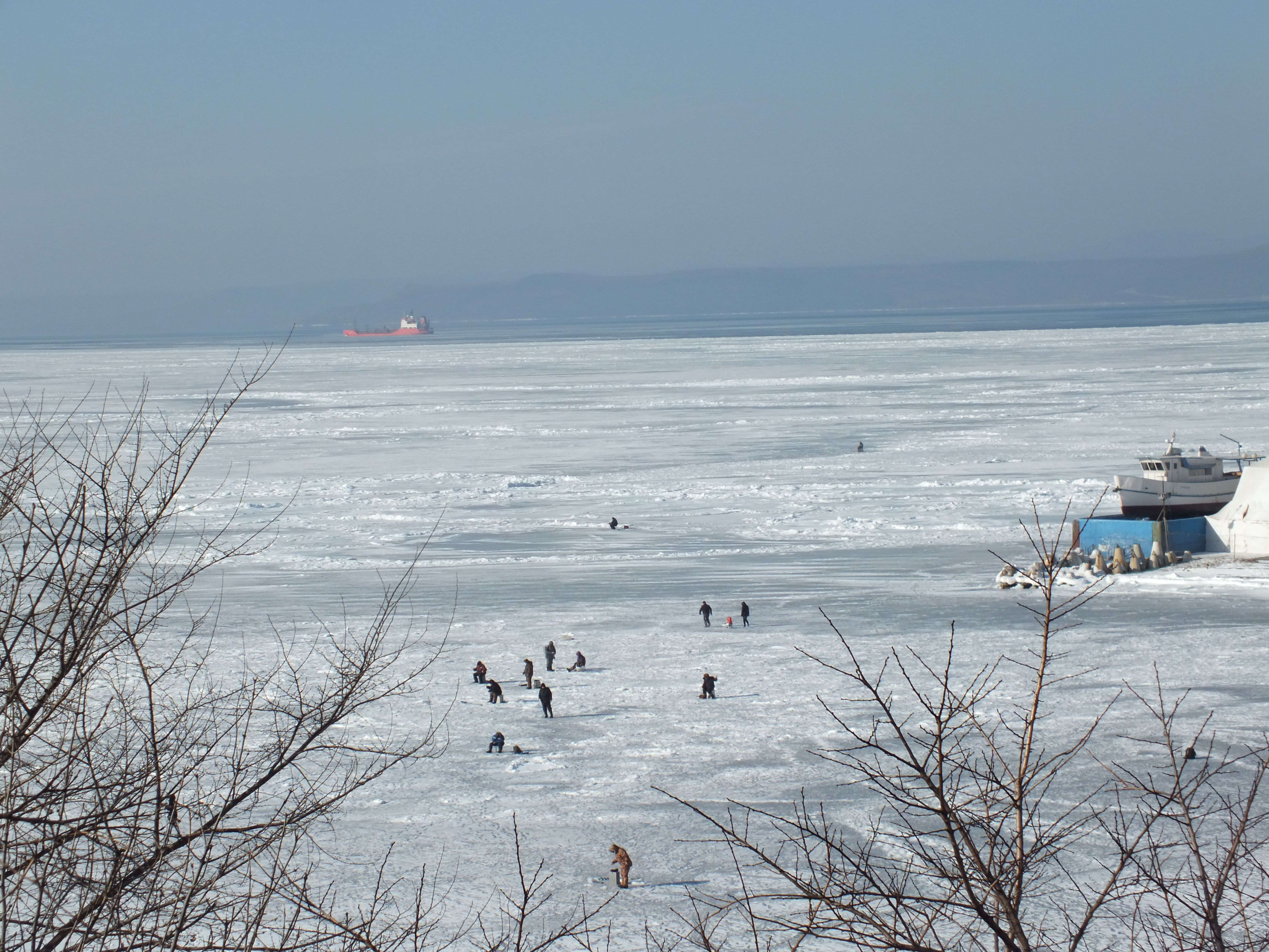 Sea of Japan